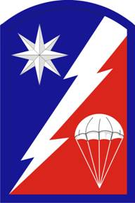 shoulder patch of 82nd Sustainment Brigade